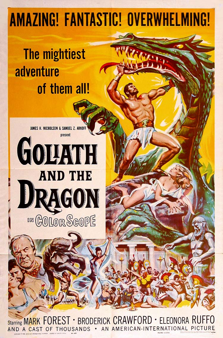 Theatrical poster for the film Goliath and the Dragon (1960)